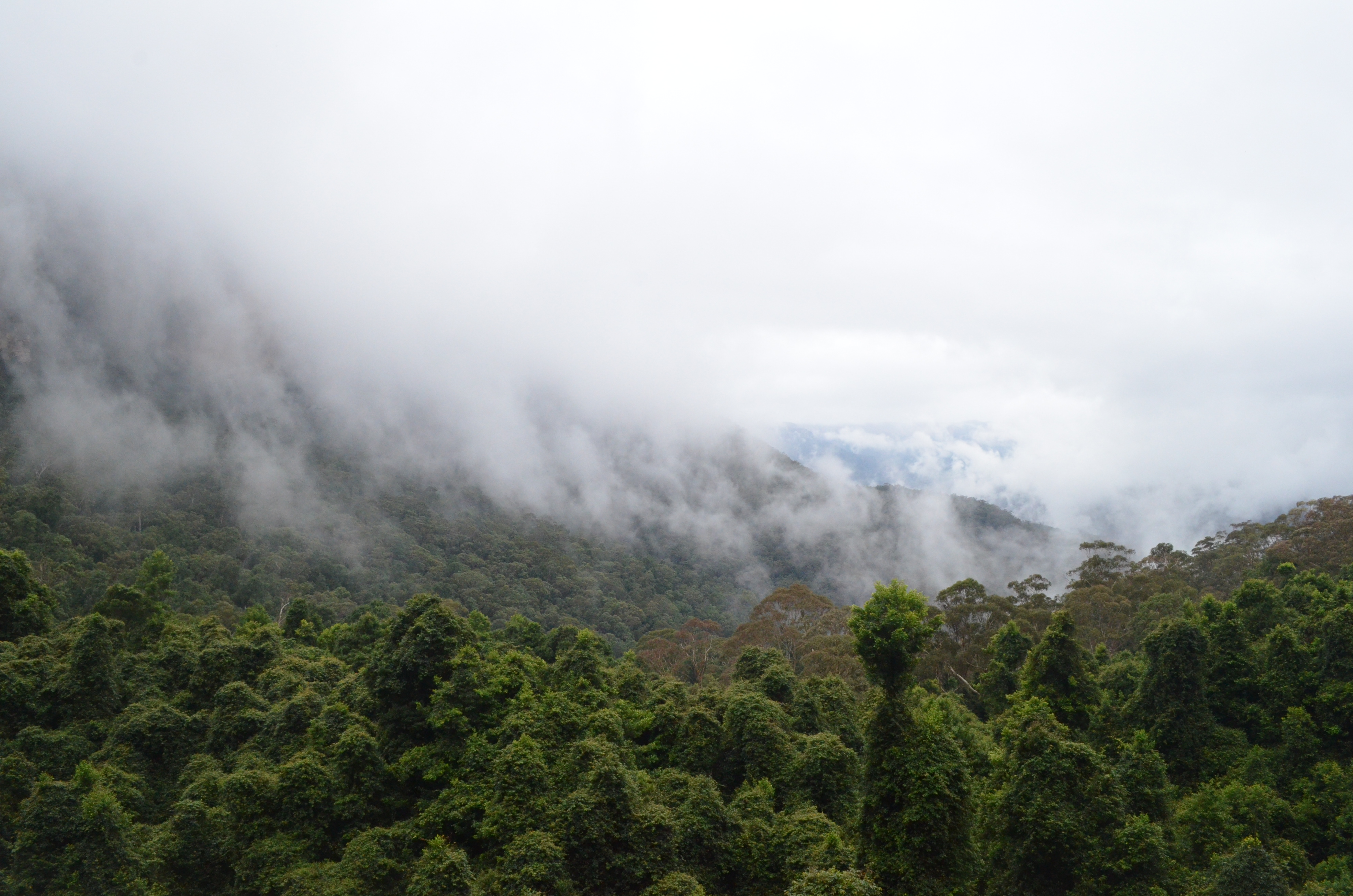 Winter season view at Blue mountains NSW, Australia